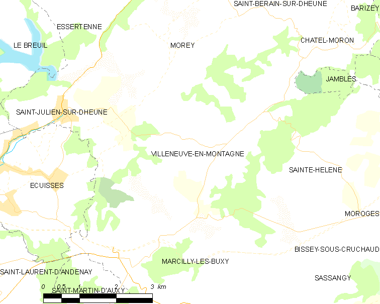 Map of French municipality